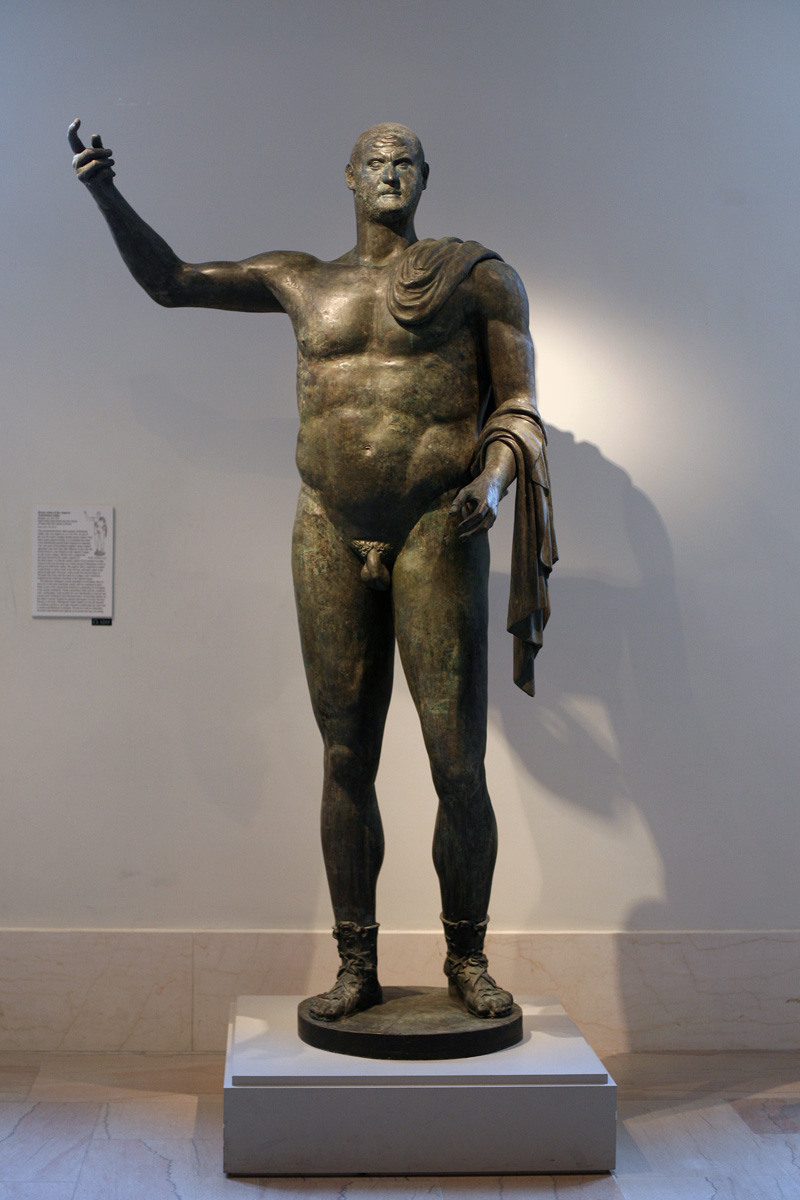 Metropolitan Museum of Art # 05.30 Photographer: Katie Chao